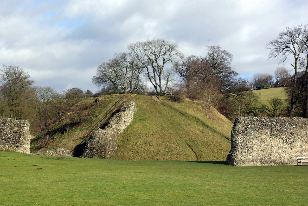 Berkhamsted Castle The motte in the north-eastern corner of the site is 13 metres high.